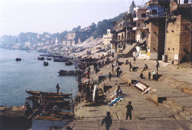 Varanaci India, looking on the Gats